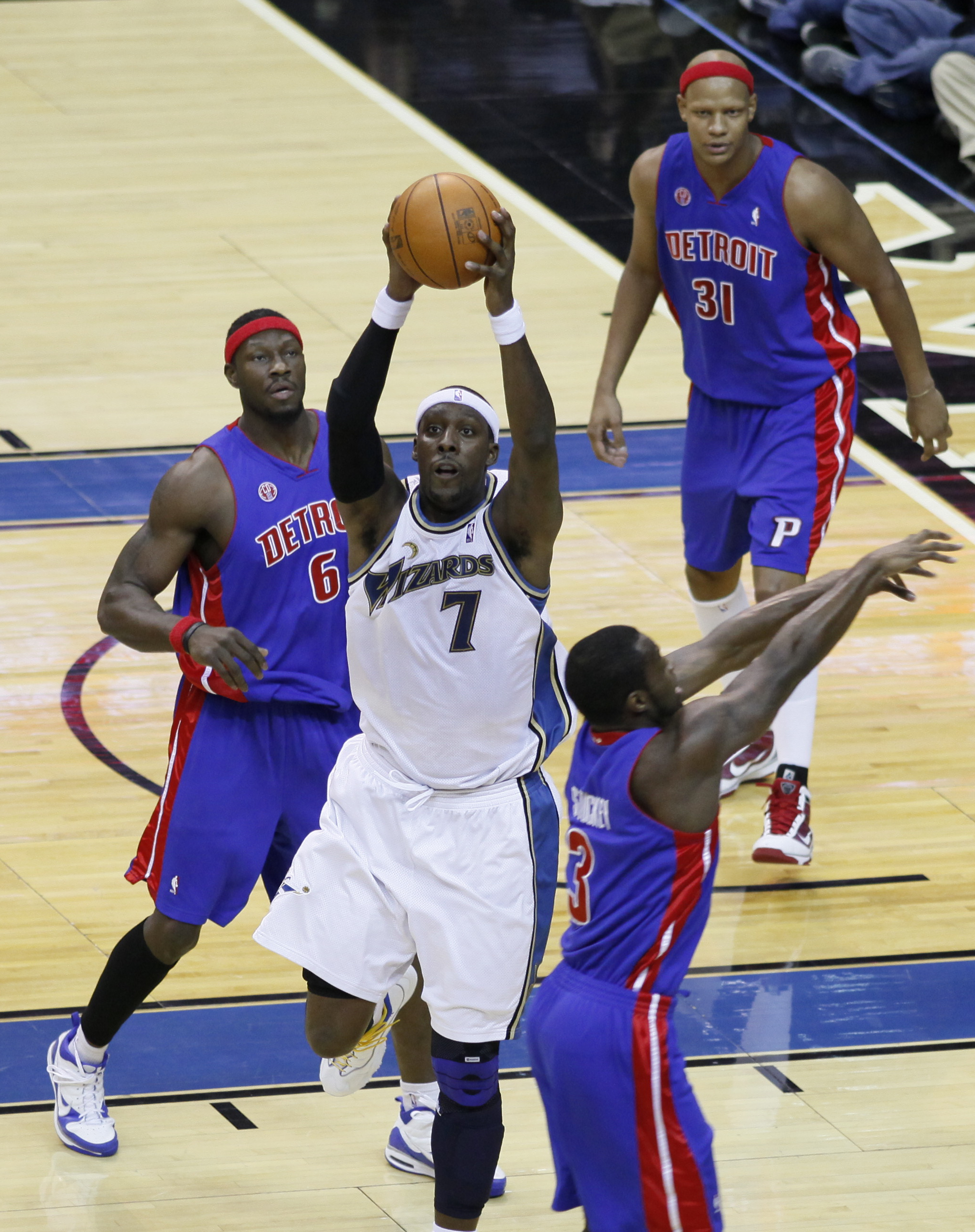 Washington Wizards v/s Detroit Pistons November 14, 2009 at Verizon Center in Washington, D.C.